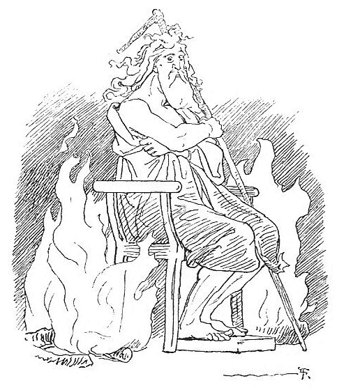 The title page for the poem Grímnismál, featuring Odin in the guise of "Grímnir," growing concerned at the growing flames.